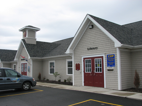 Clark's Harbour Branch Library, the newest branch is co-located with the Clark's Harbour town hall and visitor information centre in the Clark's Harbour Civic Centre, 2822 Main Street.